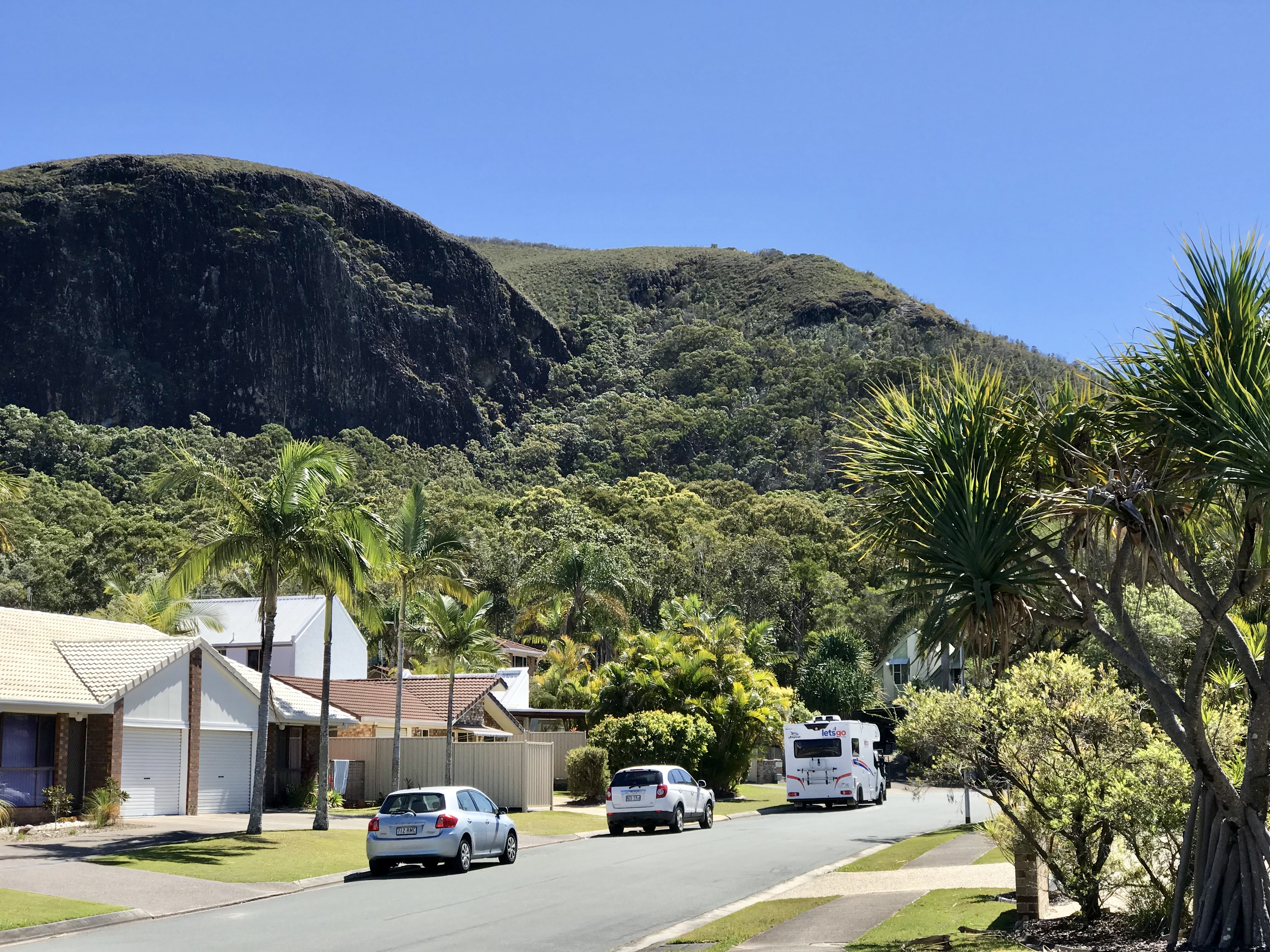 A suburb of Mount Coolum, Queensland in the shadow of Mount Coolum National Park